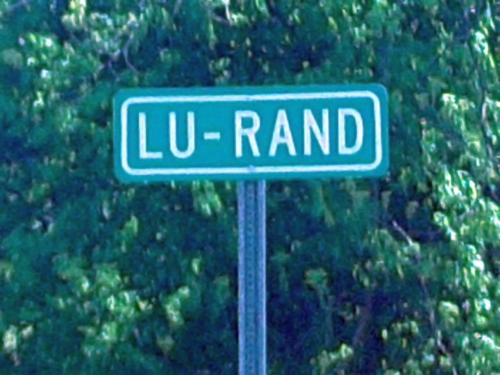 Lu-Rand Highway Sign